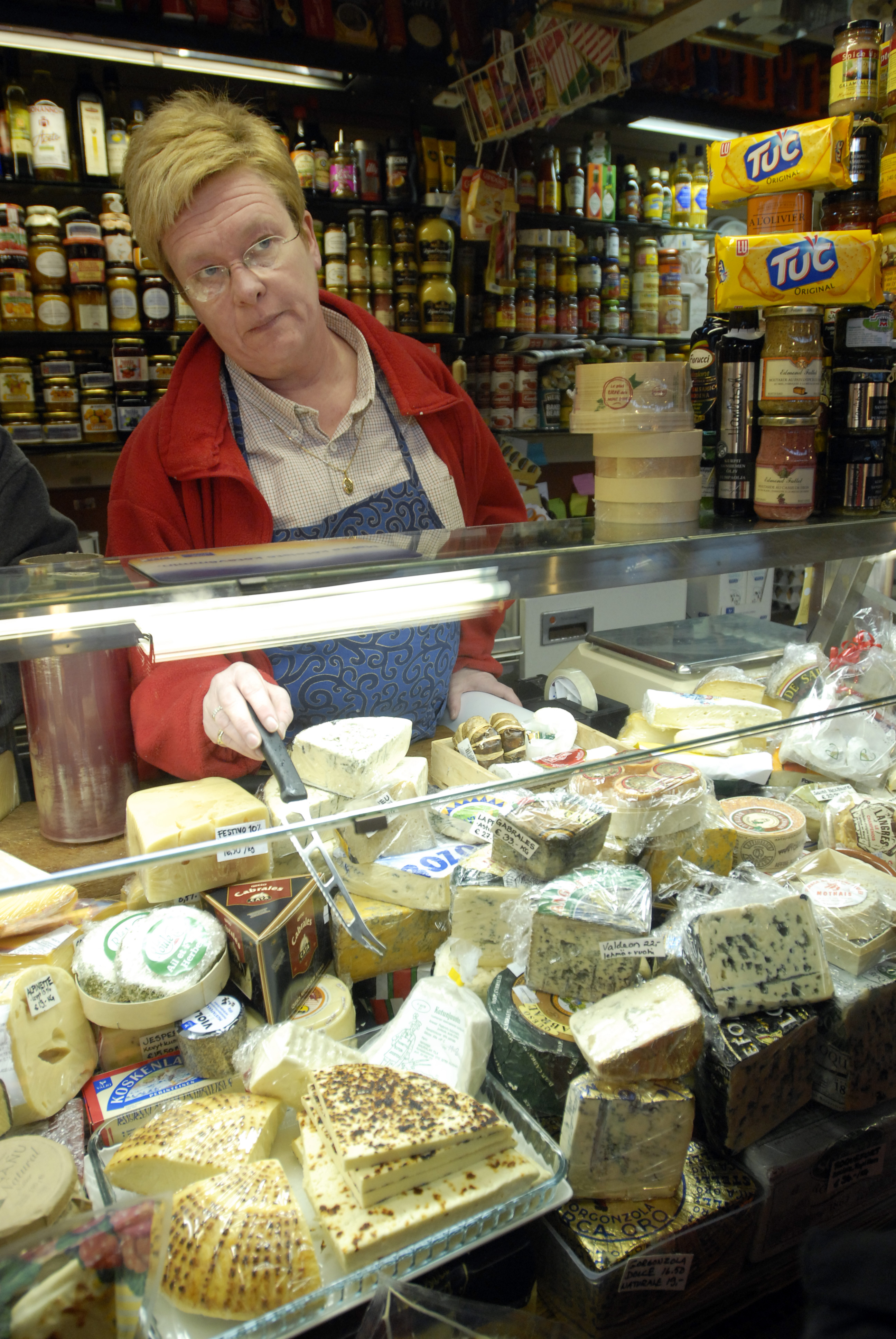 Saluhallen i Helsingfors Keywords: Trade, Food, Finland